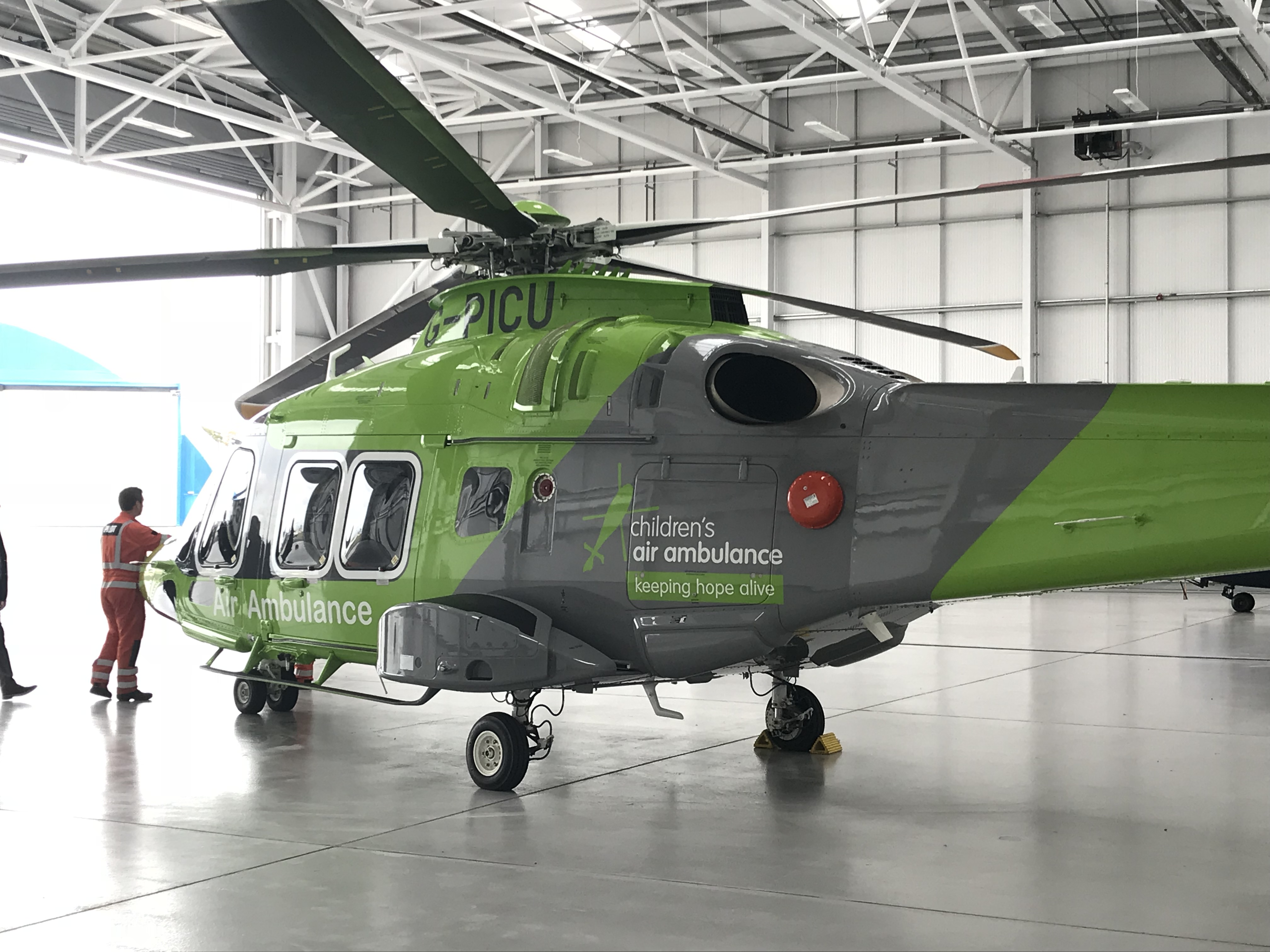 G-PICU (Children's Air Ambulance South) at Oxford Airport